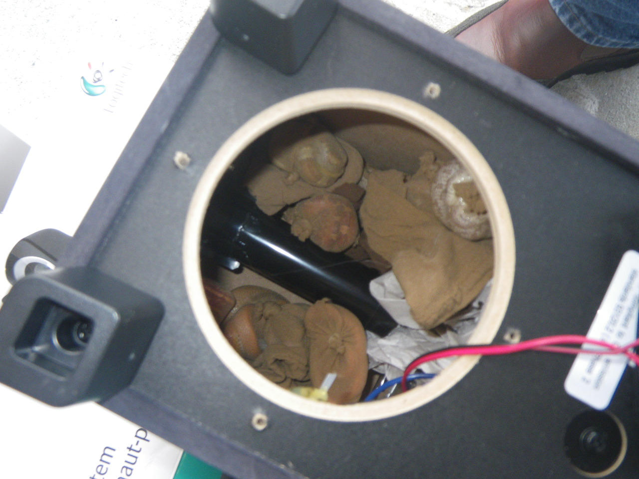 Intercepted snakes packed in a speaker. Photo by U.S. Fish and Wildlife Service